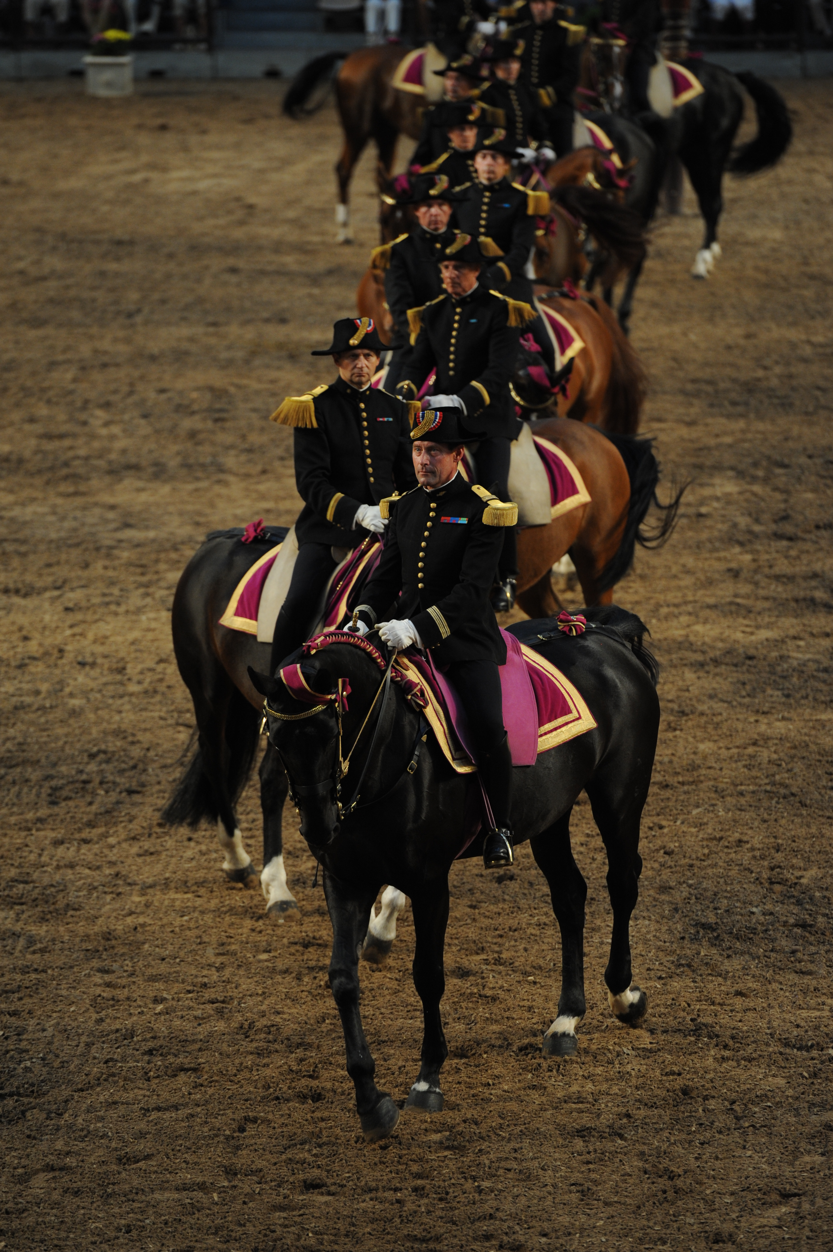 This photograph was taken by a Wikipedian, or provided by the Cadre noir, during a special day in May 2012 English | français | +/−